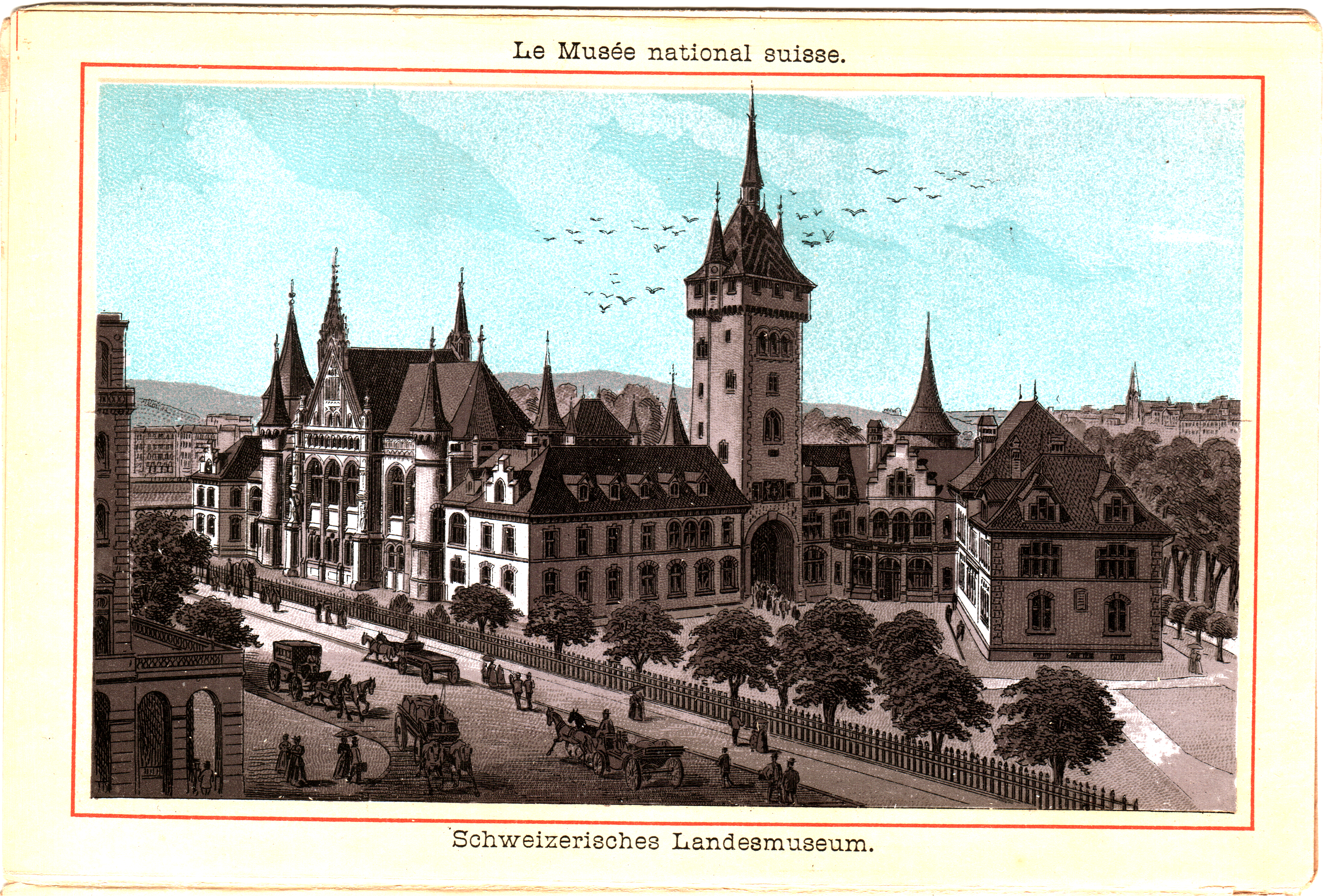 Scanned on the 16th of August, 2013. Historical photographs of Zürich.16,5 cm x 11 cm. Unknown photographer (scanned by Derzsi Elekes Andor)